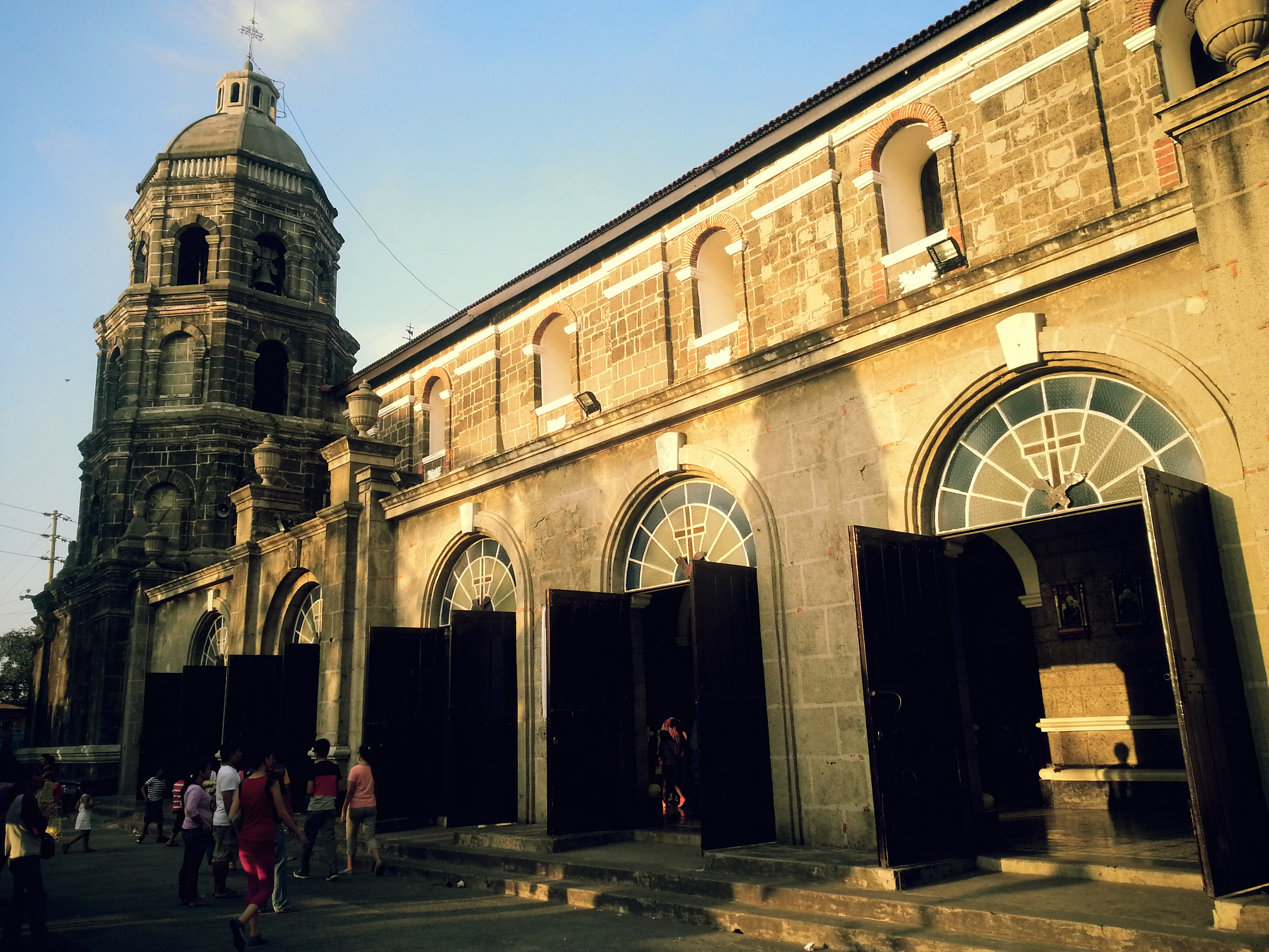 West face of Santa Ana Church (shot on Good Friday 2014)